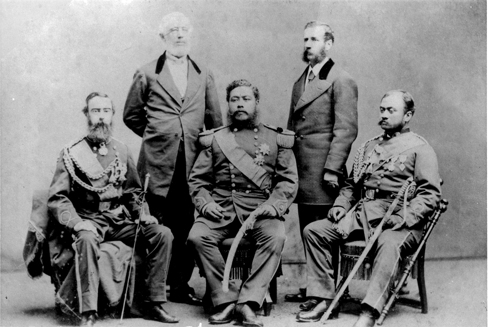 King Kalākaua and members of the Reciprocity Commission which went at Washington in 1875 to secure a Reciprocity Treaty between Hawaii and the United States. Seated, left to right: John Owen Dominis, Governor of Oahu; Kalākaua, King of the Hawaiian Islands; and John M. Kapena, Governor of Maui. Standing, left to right: Henry A. Peirce, the presiding U.S. Commissioner to Hawaii and Henry W. Severance, Hawaiian Consul in San Francisco. Photograph taken in 1874 by Bradley & Rulofson, San Francisco.